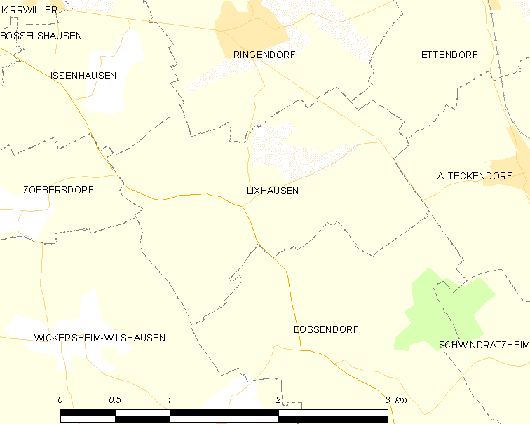 Map of French municipality